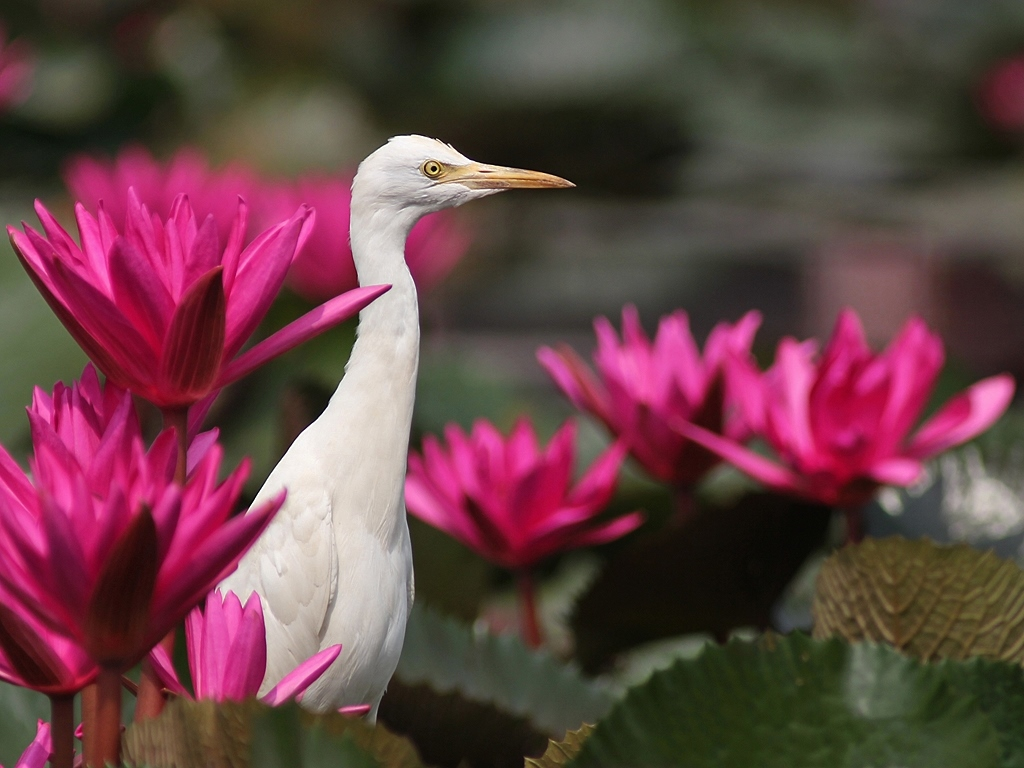 The Chirakkal Chira was cleaned in the end of 2016 after which there was a jump in the number of birds detected at the pond. The pond became a refuge for water birds during the drought that hit the state of Kerala in 2017 due to the poor monsoon of 2016. This image is of a Cattle Egret at the pond.